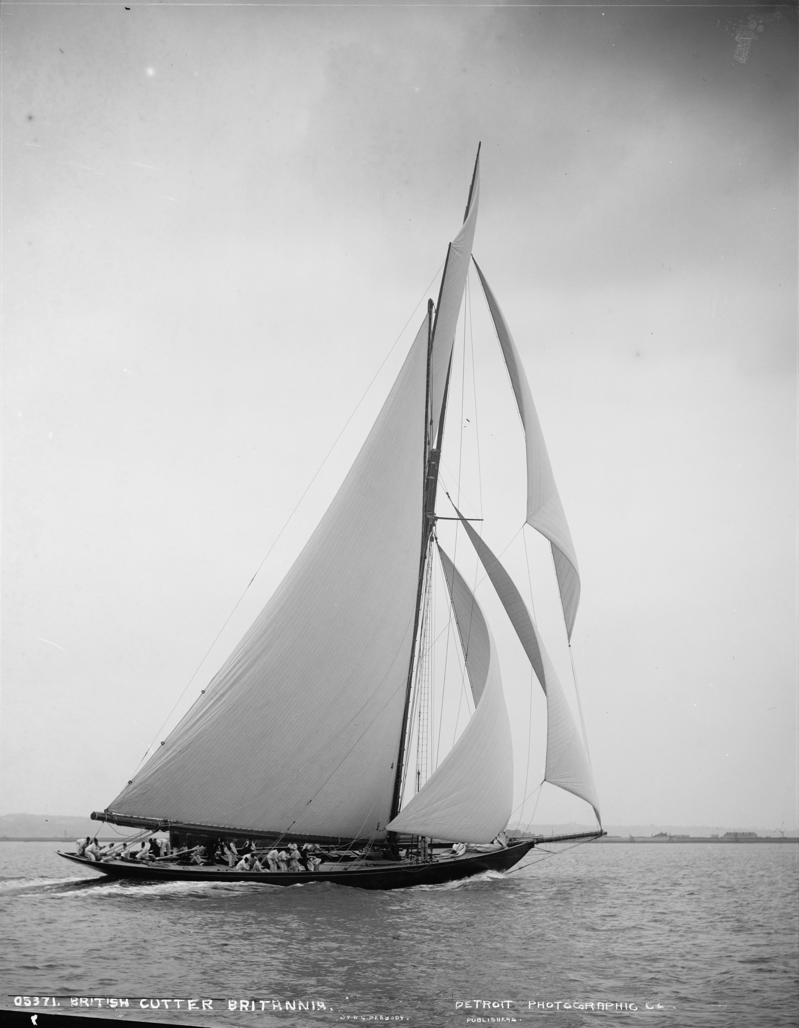 Prince Albert Edward's first-class rater Britannia (George Lennox Watson design, built in 1893 at the D&W Henderson shipyard)